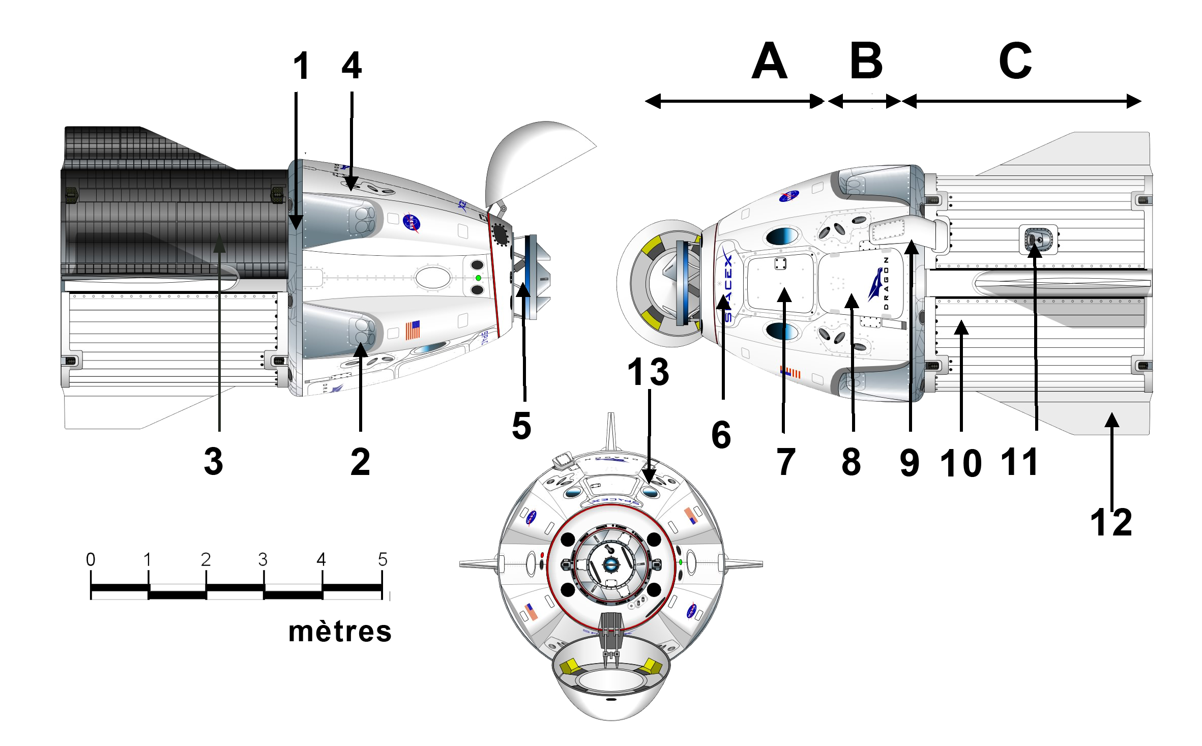 Figure of Crew Dragon viewed from the front and both sides: A Crew Capsule (pressurized portion) • B Crew Capsule (non-pressurized service module) • C Trunk • 1 Thermal shield • 2 SuperDraco engine nozzles (4 × 2) • 3 Solar panels • 4 Draco engine nozzles (4 × 4) • 5 Hinged cone protecting the mooring system at the space station • 6 Hatch for pilot parachutes • 7 Crew hatch • 8 Hatch for the 4 main parachutes • 9 Sheath for cables and pipes connecting the trunk and the crew capsule (energy, thermal regulation circuit, ...) • 10 Radiators • 11 Umbilical socket used on the launch pad • 12 Stabilizing fins in case of ejection at launch • 13 Portholes